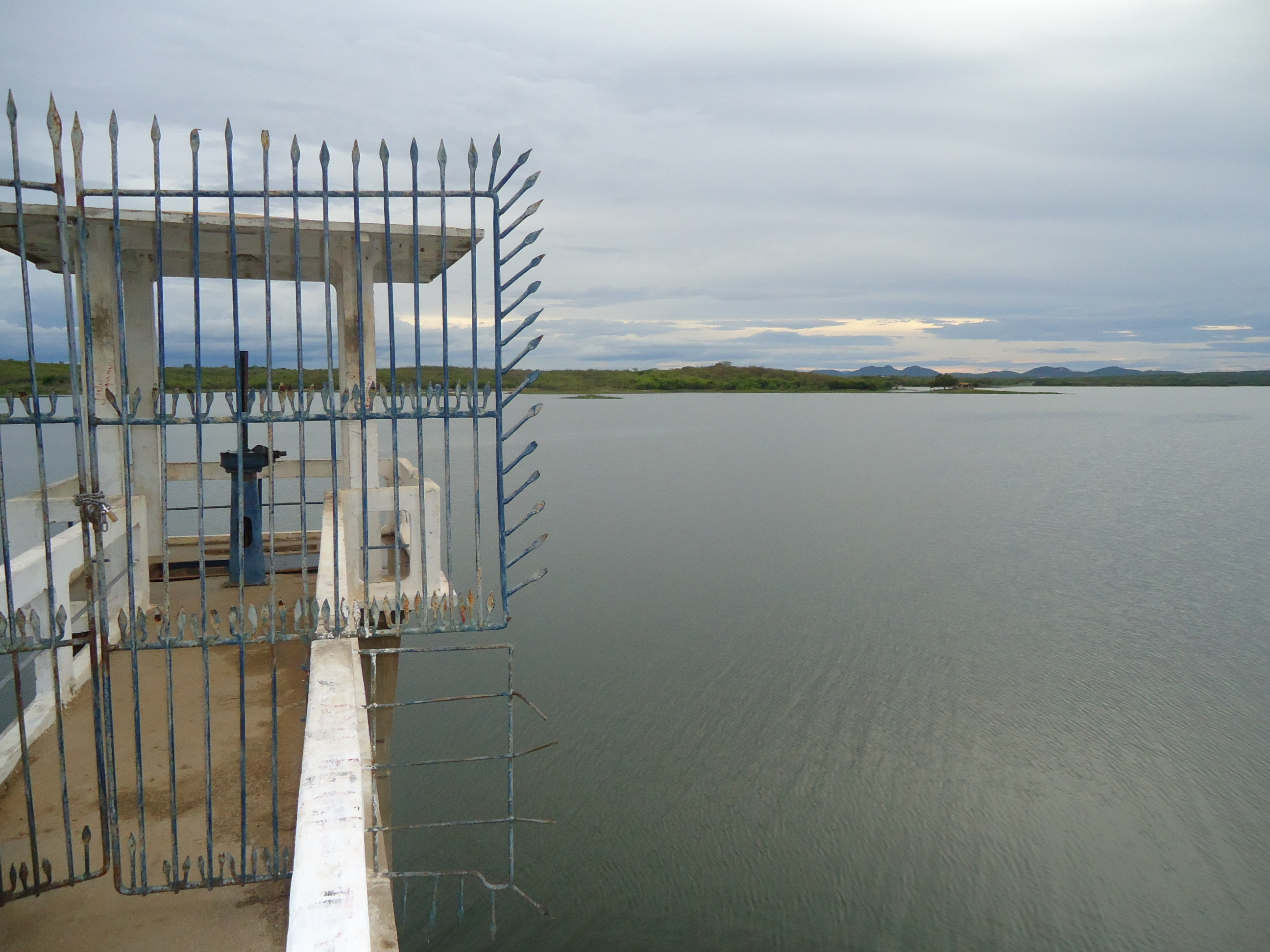 Açude Joaquim Távora reservoir in Jaguaribe, Brazil